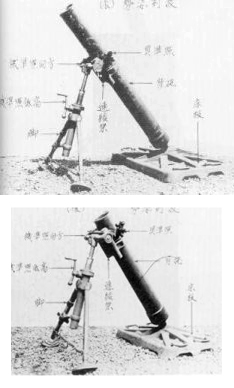 Type 97 150mm Infantry Mortar of the Imperial Japanese Army